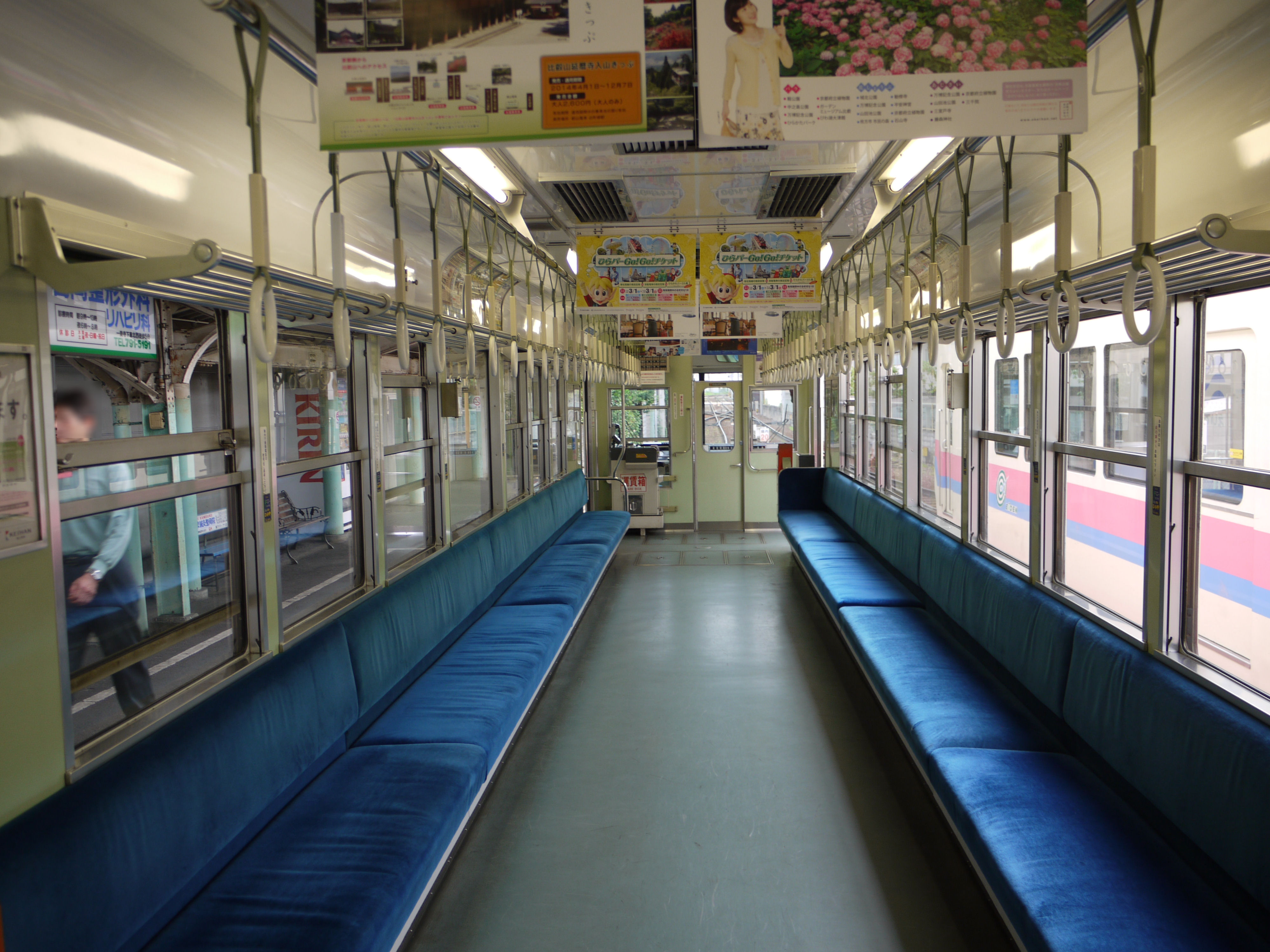 Inside Eiden Deo 731